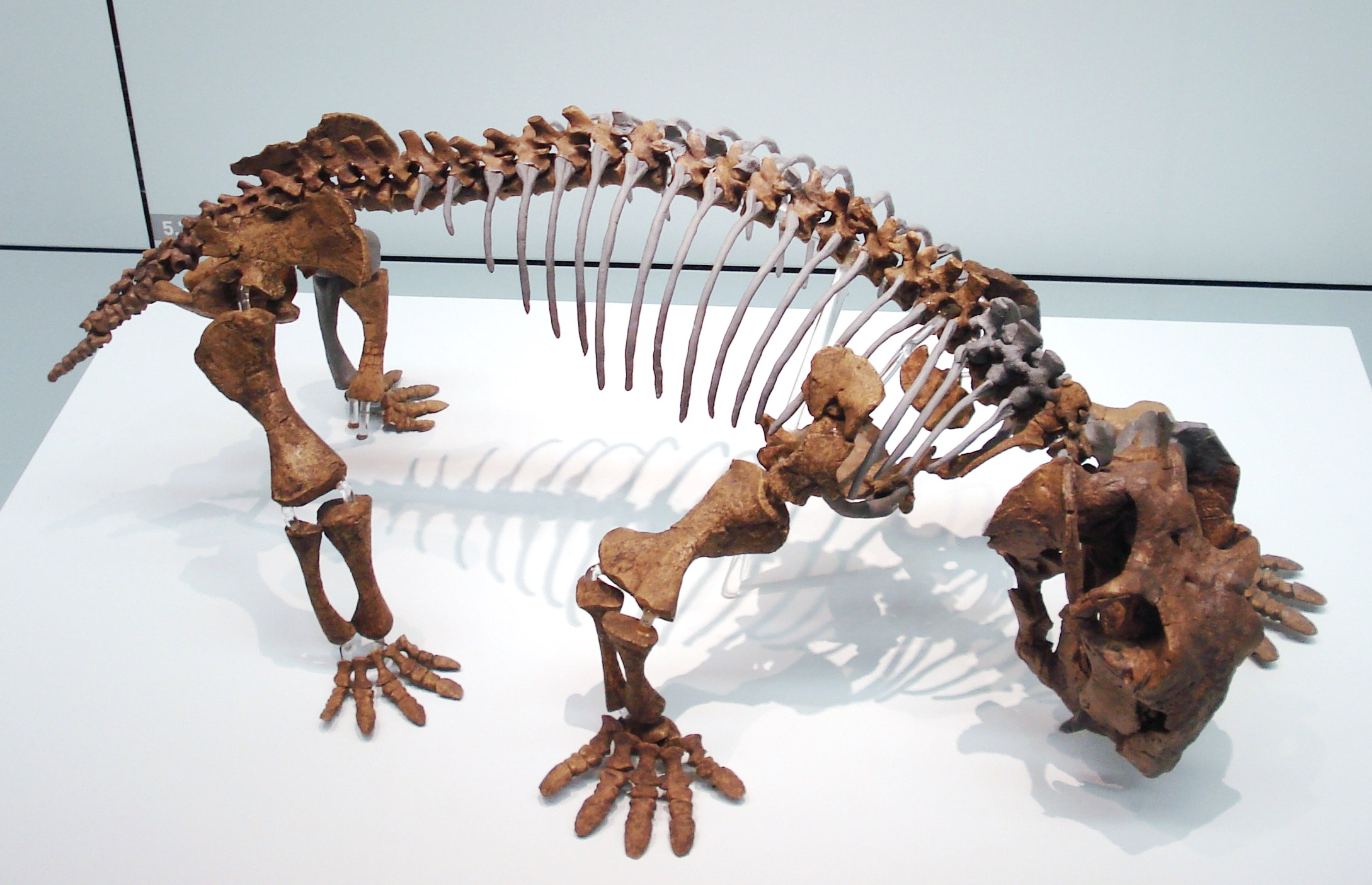 fossil of lystrosaurus